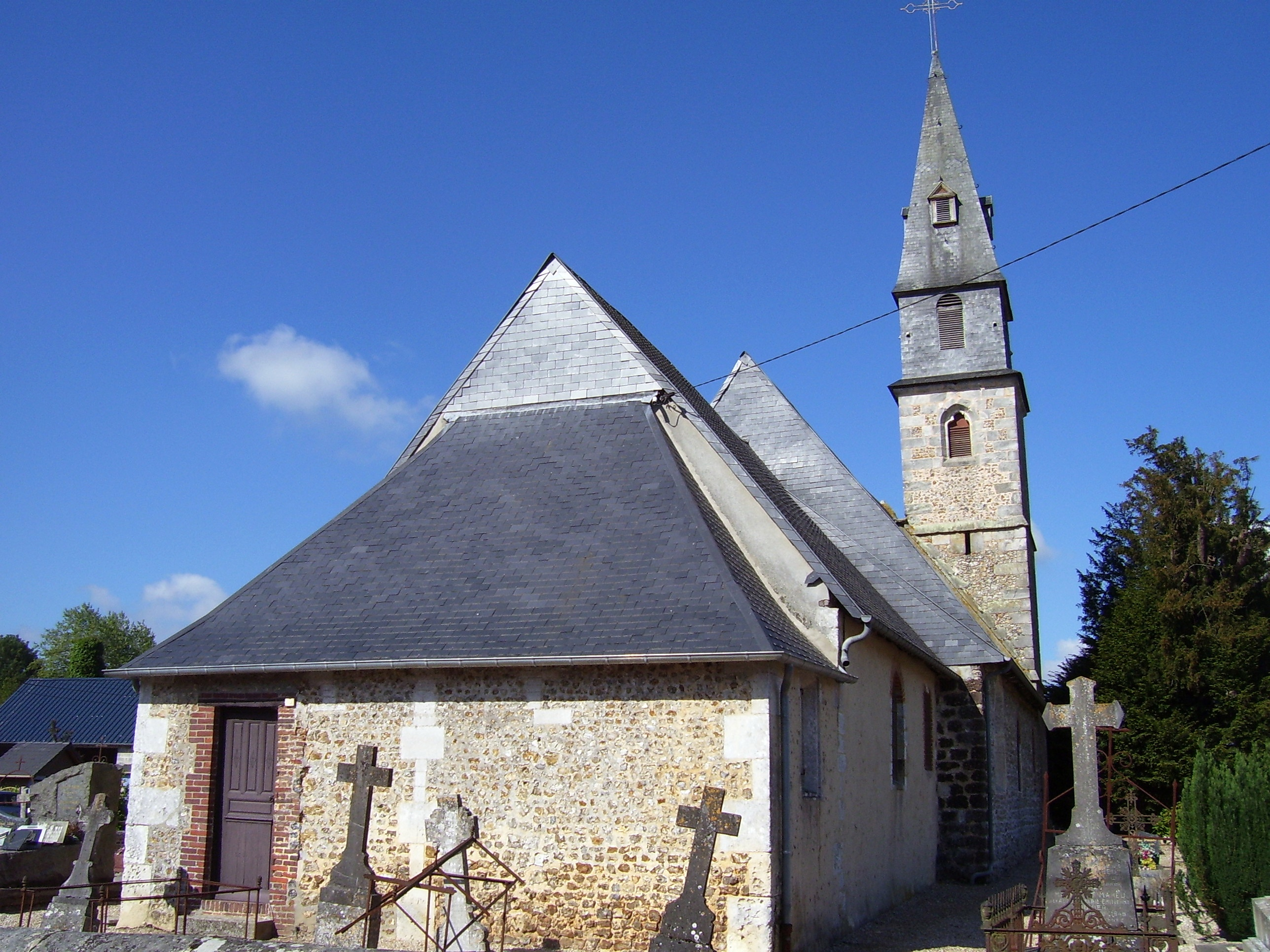 Eastern side of the church in Valailles (Eure, Haute-Normandie, France). The nave was built in the 11th century. The site was officially classified as "Site classé" (one of the French heritage conservation labels) in 1929.